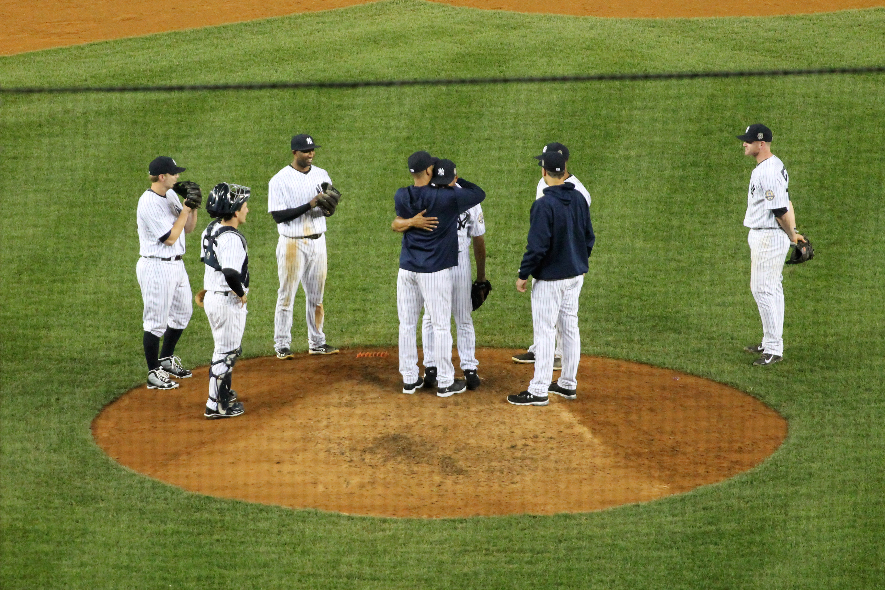 New York Yankees pitcher Mariano Rivera embraces teammate Derek Jeter after being removed from his final Major League Baseball game on September 26, 2013 at Yankee Stadium in Bronx, NY